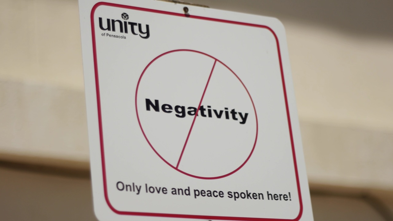 No Negativity sign located outside Unity Church of Pensacola in Pensacola, Fl